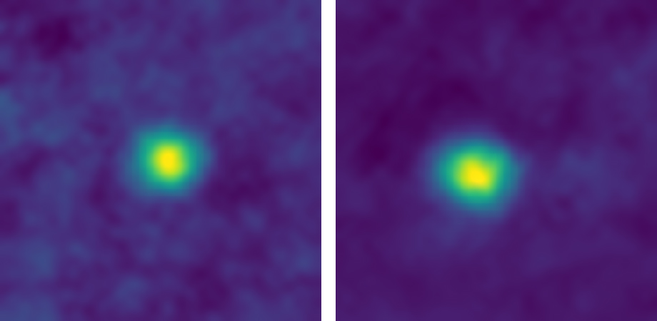 With its Long Range Reconnaissance Imager (LORRI), New Horizons has observed several Kuiper Belt objects (KBOs) and dwarf planets at unique phase angles, as well as Centaurs at extremely high phase angles to search for forward-scattering rings or dust. These December 2017 false-color images of KBOs 2012 HZ84 (left) and 2012 HE85 are, for now, the farthest from Earth ever captured by a spacecraft. They're also the closest-ever images of Kuiper Belt objects.